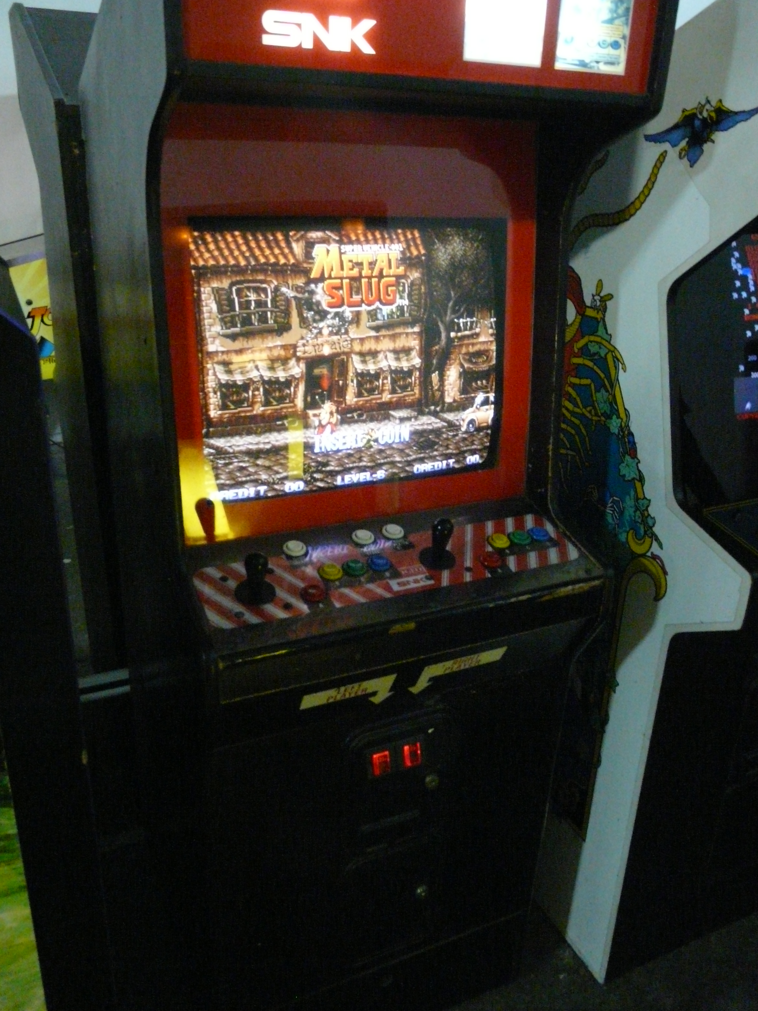 Metal Slug arcade cabinet at the Mechanical Museum of San Francisco (United States)